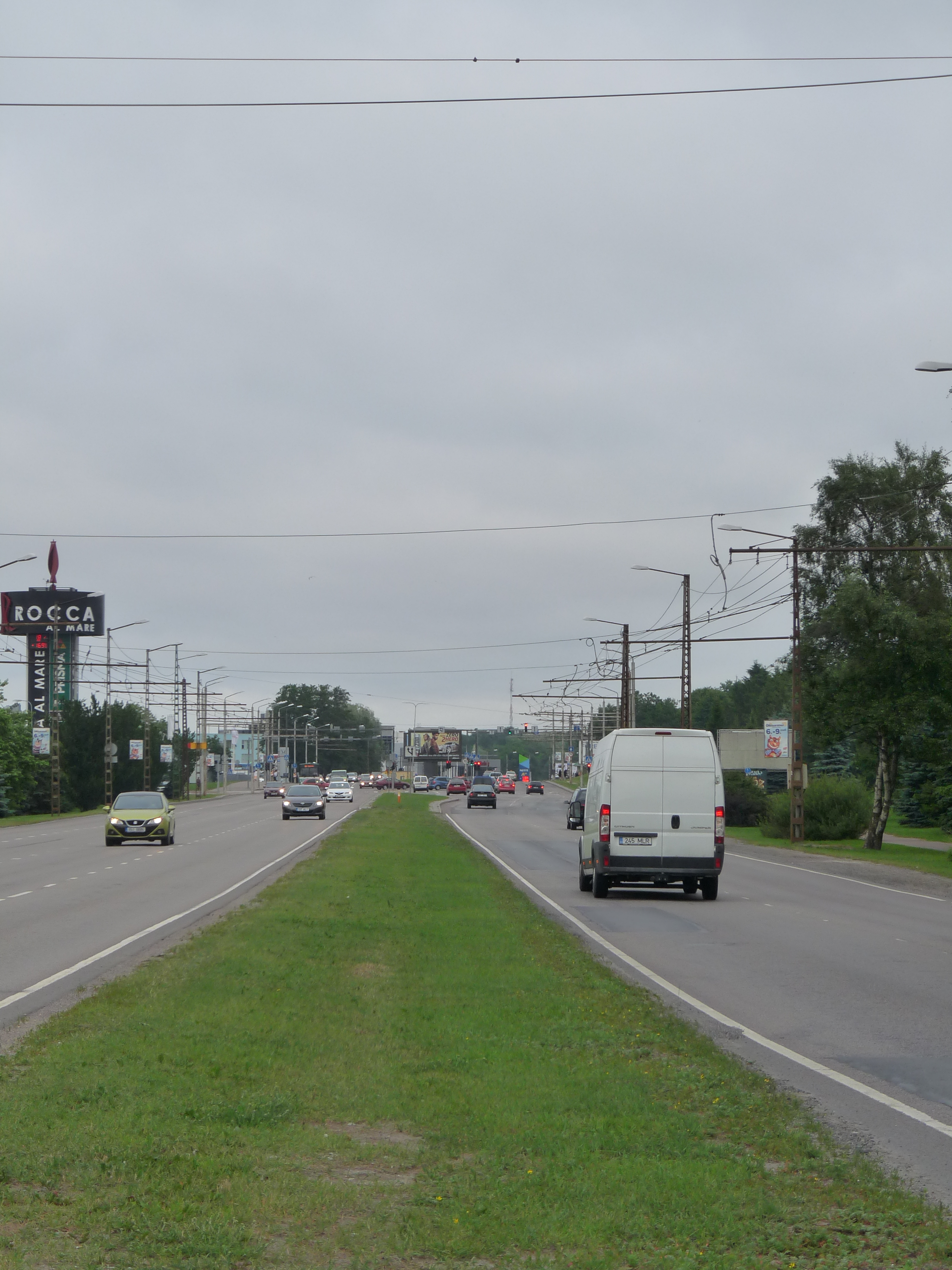 Paldiski highway, view from Haabesrti roundabout.